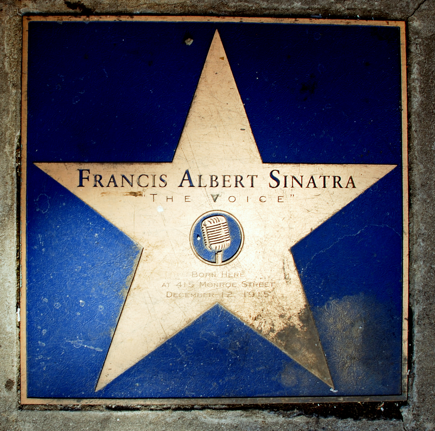 Marker at the birthplace of Frank Sinatra in Hoboken, New Jersey. USA.